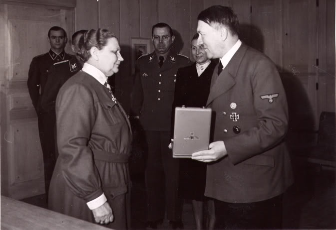 Finnish leader of the Lotta Svärd organization Fanni Luukkonen was awarded the Order of the German Eagle with Star from Adolf Hitler on May 19, 1943